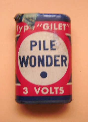 An old WONDER zinc-carbon battery (probably 1960s)